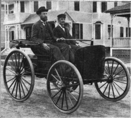 Photo of Charles (left) and J. Frank Duryea in the 1894 Duryea gasoline car. Original caption: “A Duryea Car of 1894: on the left Charles E. Duryea, pioneer motor manufacturer in the United States; with him his brother J.F. Duryea. This is the model of car that won the first auto race in America—1895 and the only American car ever first in an international run, October, 1896.”